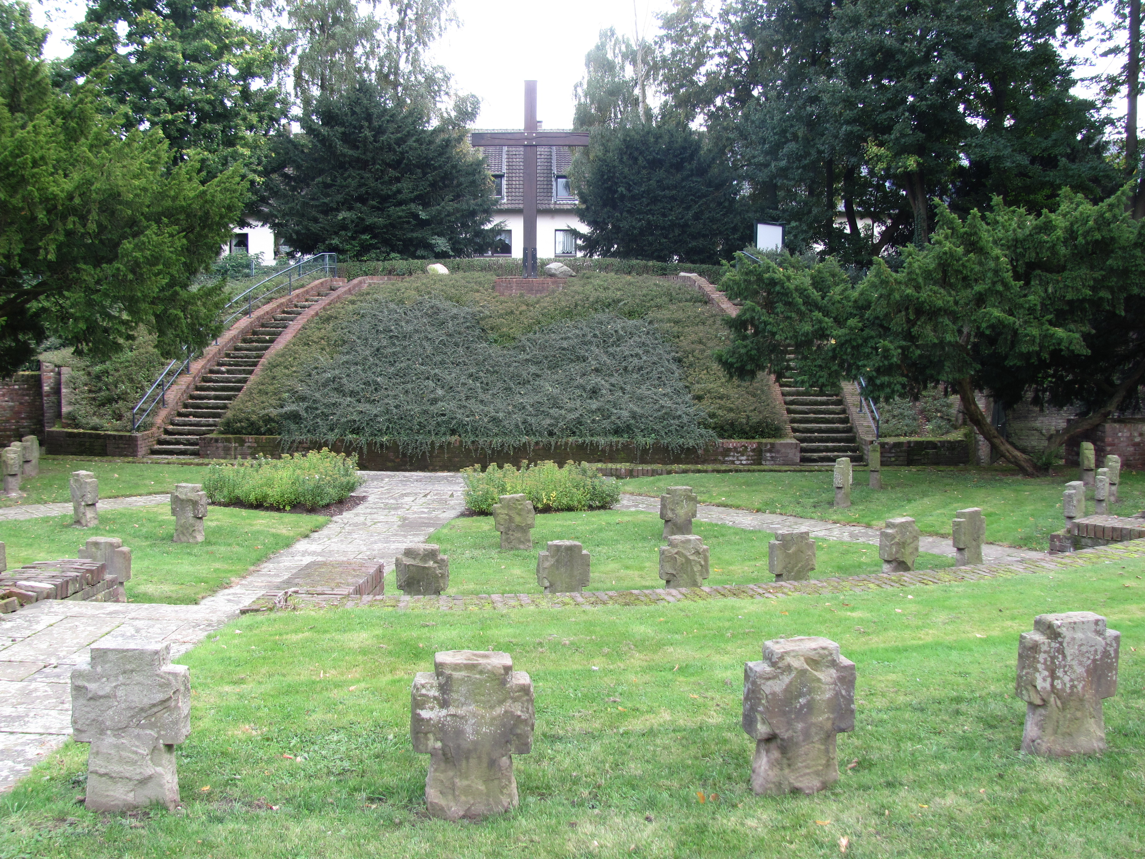 War memorial, former bastion, Rees on Lower Rhine, Germany